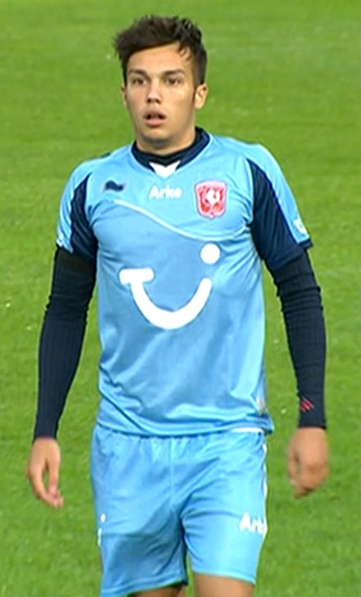 FC Twente-player Dario Vujičević